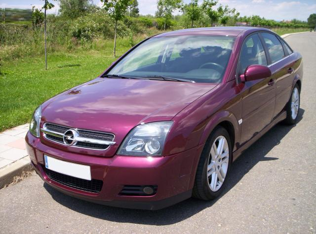 Opel Vectra C